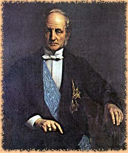 Alexandros Rhizos Rhankaves